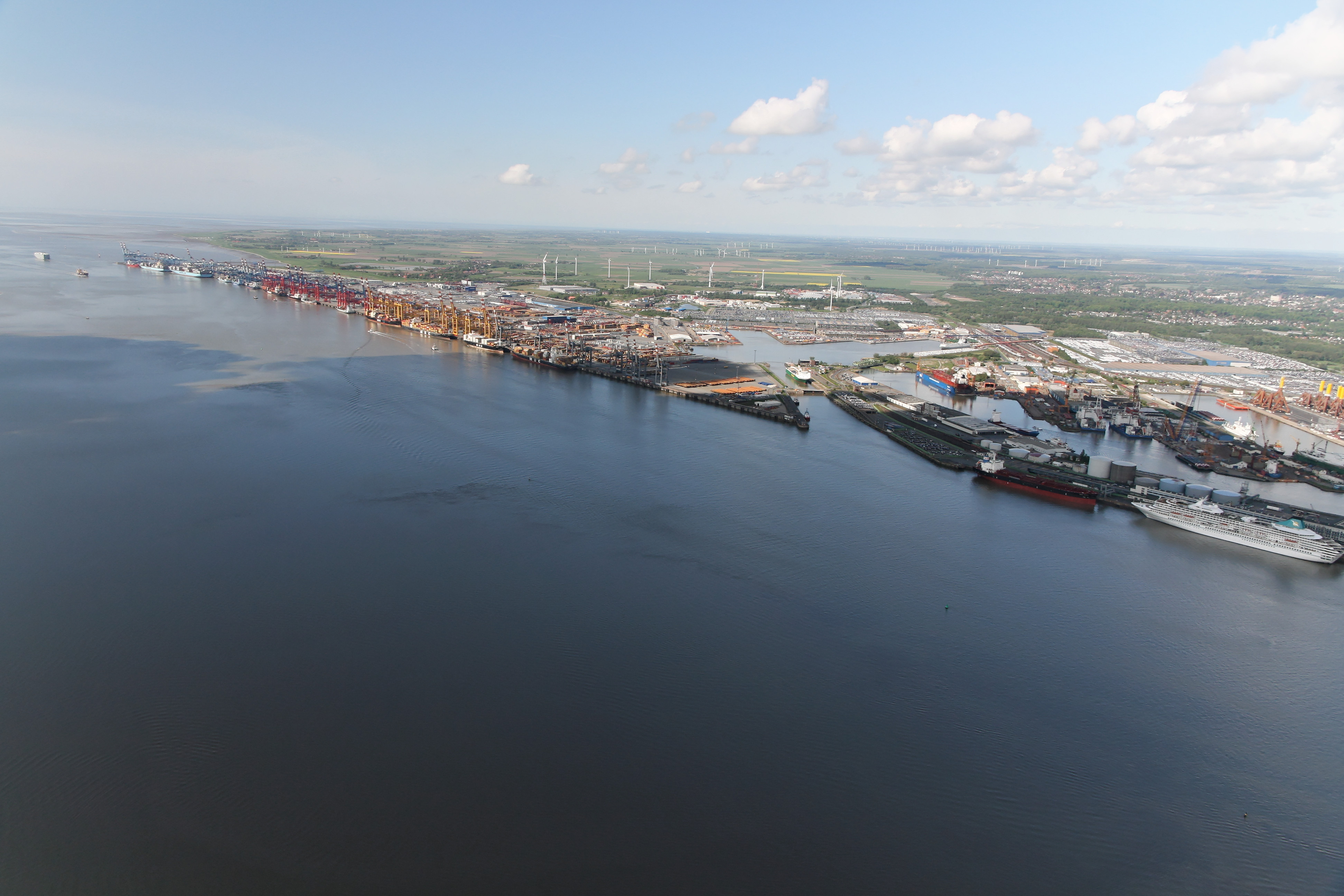 A aerial photograph of a unidentified location.